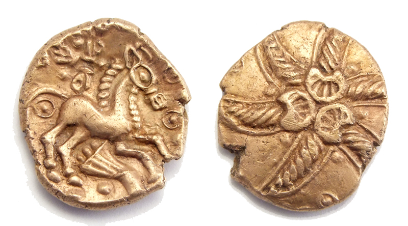 British Celts, Trinovantes. Gold stater